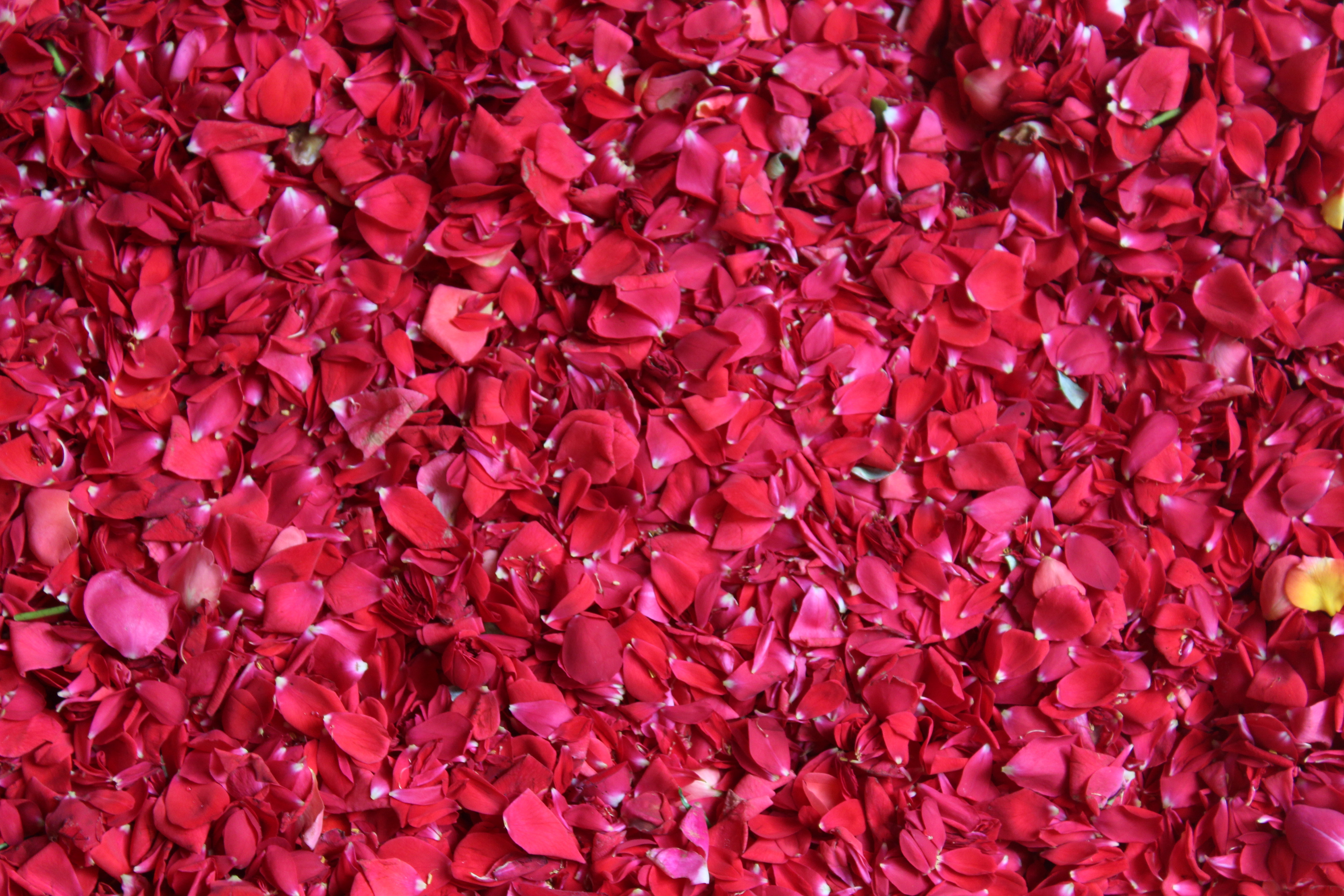 Rose petals for pookkalam -ONAM